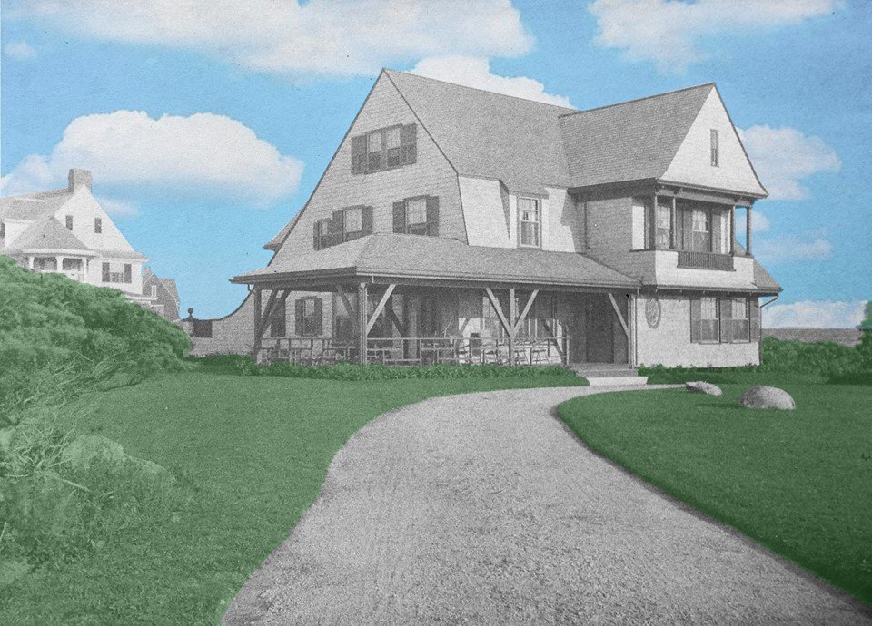 One of three summer homes owned by J.L. Richards on Chapoquoit Island, West Falmouth, Mass